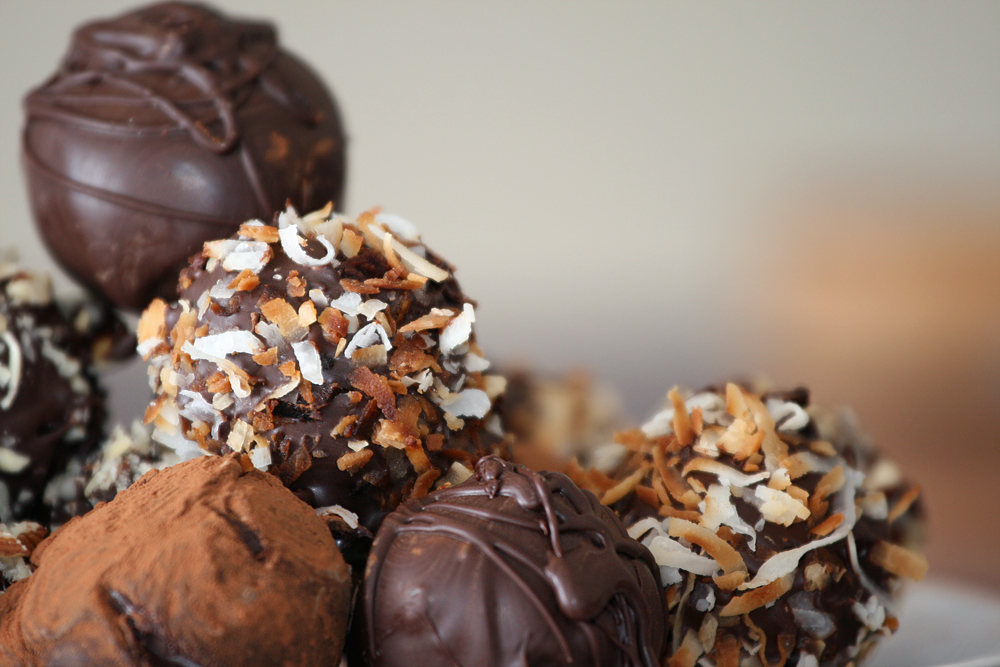 Truffles with nuts and chocolate dusting in detail.